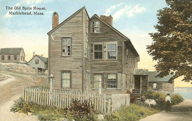 The Old Spite House, Marblehead, MA; from a c. 1912 postcard. Built by Robert Wood in 1715, it was home to the Graves brothers, three fishermen famous for ignoring and spiting each other. (Orne Street and Gas House Lane, Marblehead, MA)